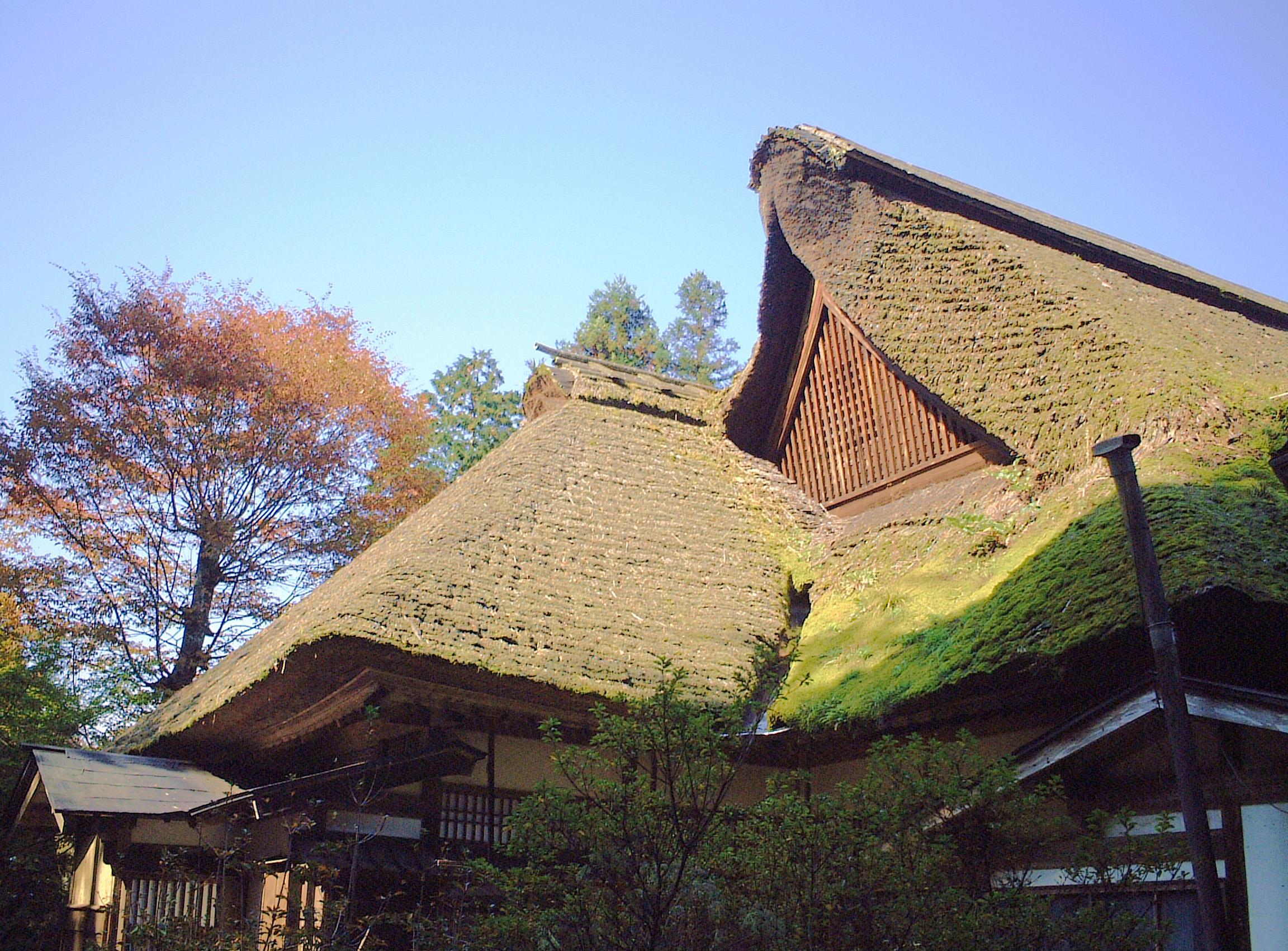 Old style roof of Japan. Photo taken in Mitake Tokyo Japan.